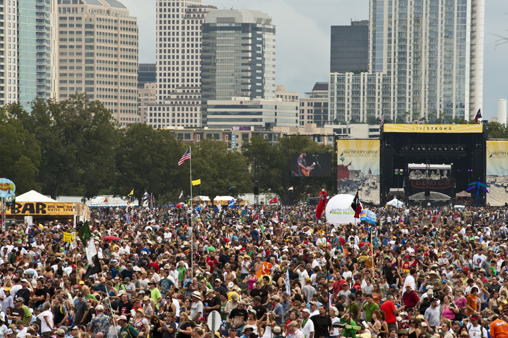 Austin City Limits Music Festival, 2009, by Steve Hopson. The Austin City Limits Music Festival 2009, Austin Texas, October 4, 2009. The Austin City Limits Music Festival is an annual three-day music festival in Austin, Texas's Zilker Park.